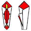 A drawing of traditional japanese origami model called noshi.